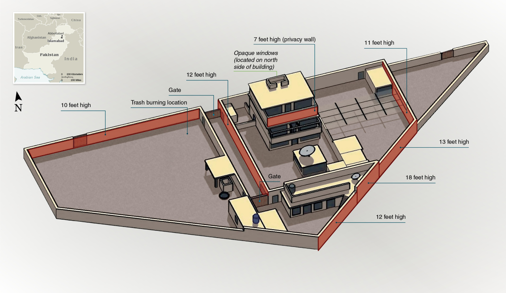 Hideout of Osama bin Laden, the location of his death, in Abbottabad, Pakistan; compound located at coordinates listed below.